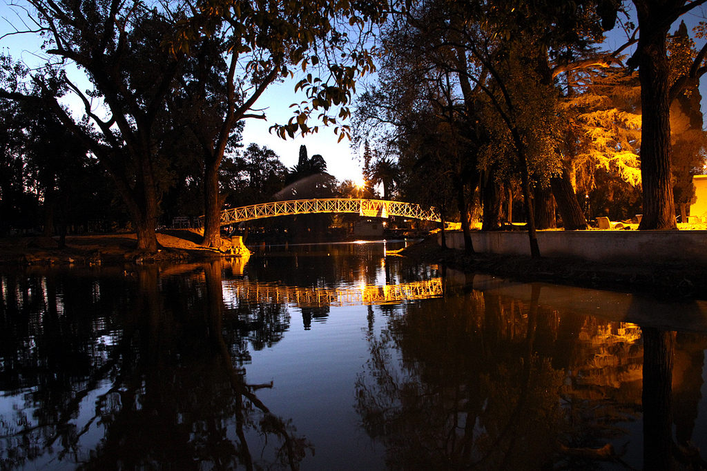 Lake at Sarmiento park. Cordoba, Argentina.